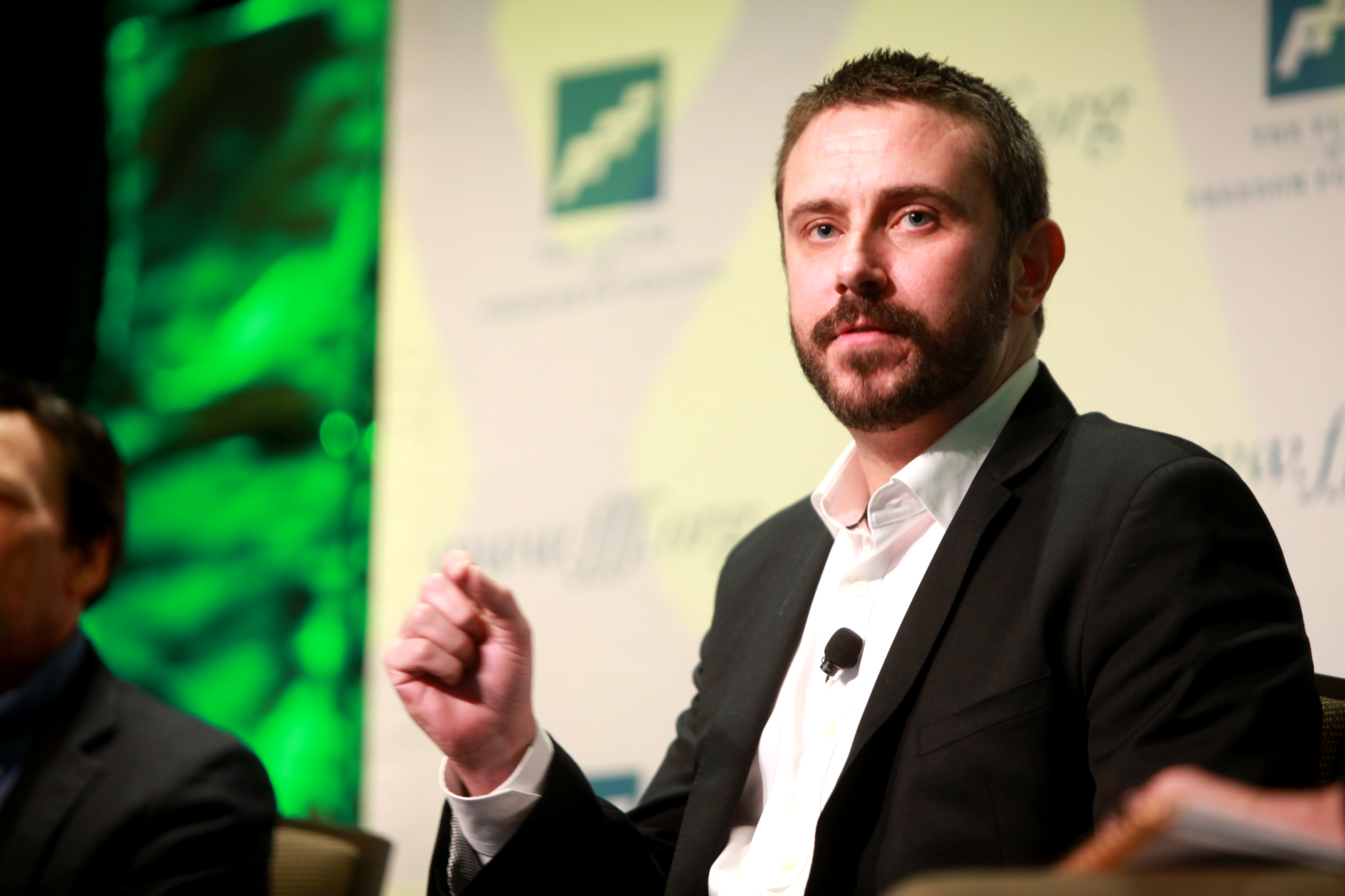 Jeremy Scahill speaking at the 2014 International Students for Liberty Conference (ISFLC) in Washington, D.C.